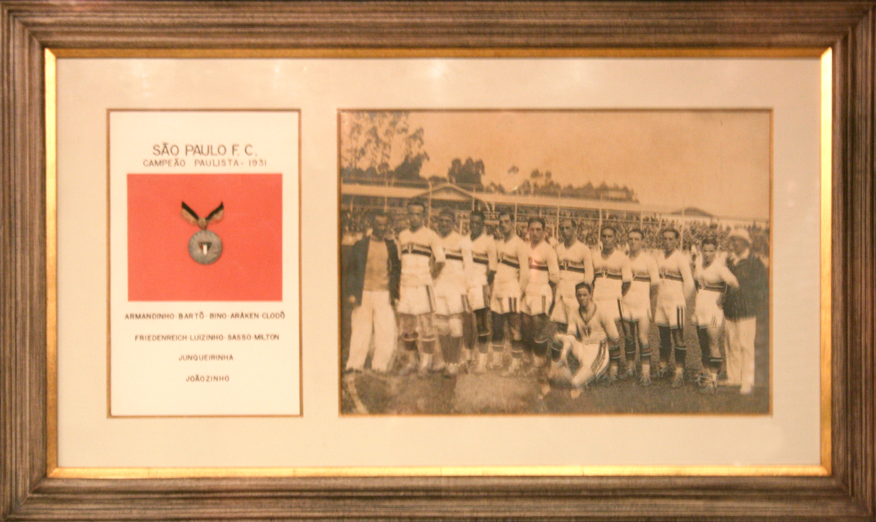 frame of the medal and team photo of the paulista championship winner of 1931 in the Luiz Cássio dos Santos Werneck memorial, located in the Cícero Pompeu de Toledo stadium, known as Morumbi.